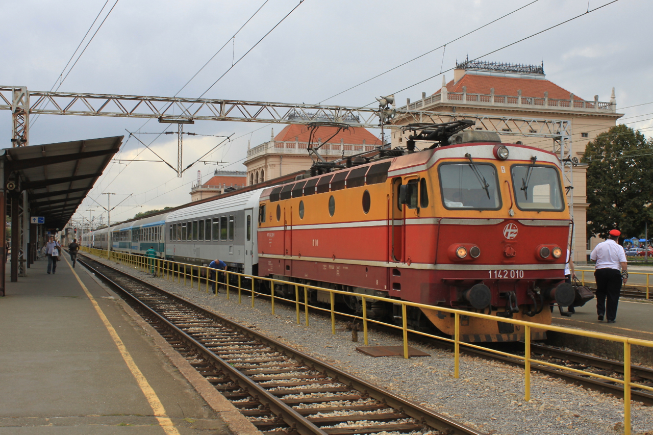 HŽ 1142 010 ahead of EuroCity 211 "Sava" from Villach Hbf to Beograd calling at Zagreb Gl. Kol.